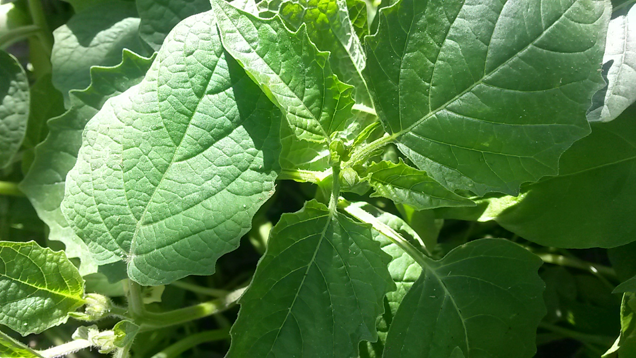 Tomatillo shot above plant featuring leaves and buds